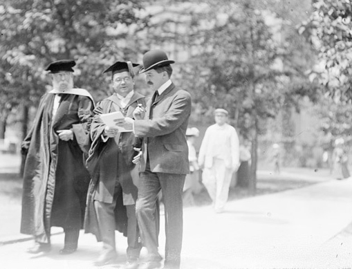 American educator and university president Daniel Coit Gilman walking with William Rainey Harper, president of the University of Chicago, at convocation day at the campus in the Hyde Park area of Chicago on 16 June 1903. They are accompanied by an unidentified man.